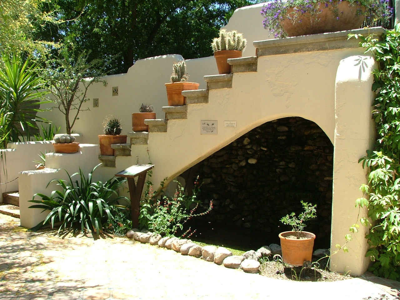 Decorative wall in garden, Tohono Chul Park